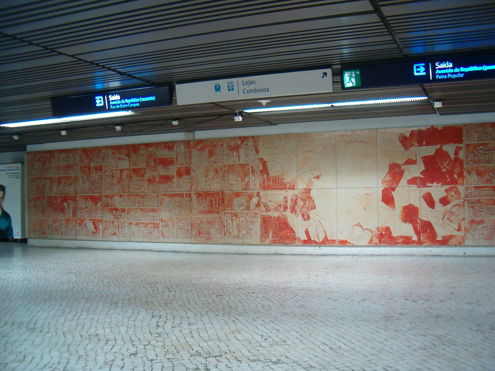 Metro station Entre Campos (Lisboa); panel by Bartolomeu dos Santos